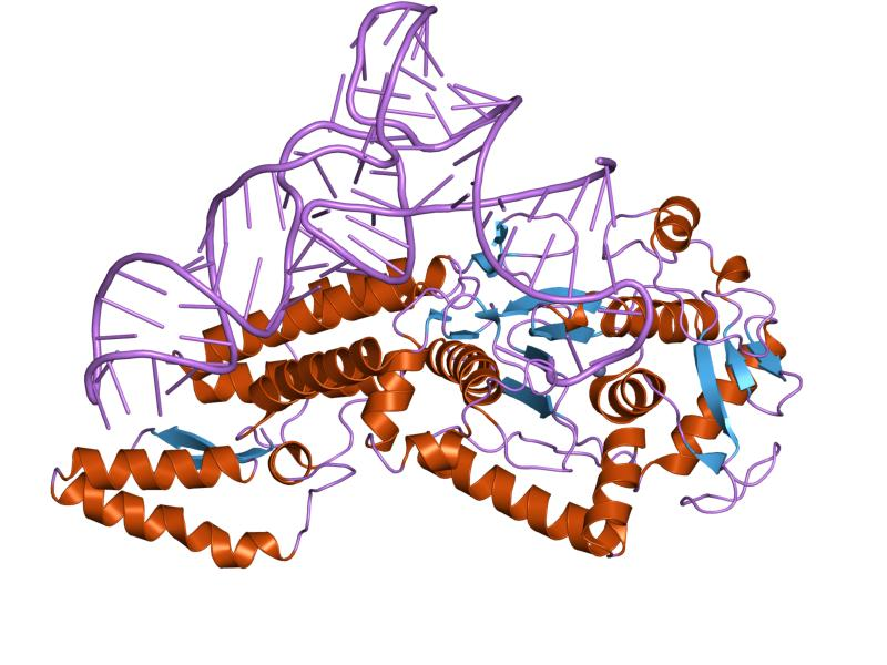 Cartoon representation of the molecular structure of protein registered with 1u0b code.